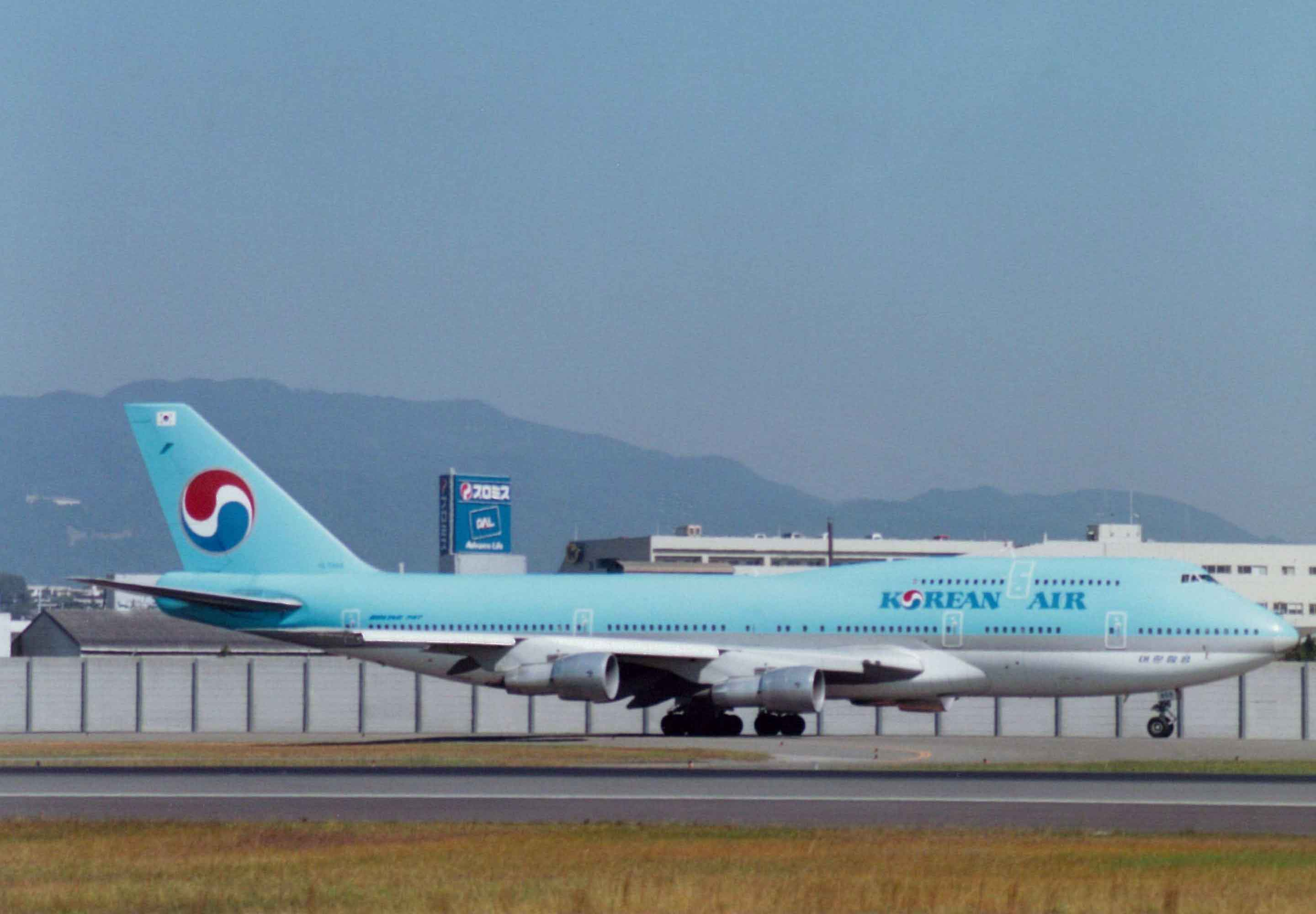 It is Airliners which it photographed in Itami, Osaka Airport.